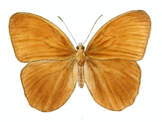 Clerome assama